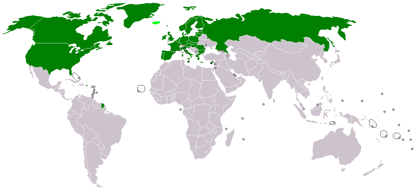 dark green - members; light green - convention signatory